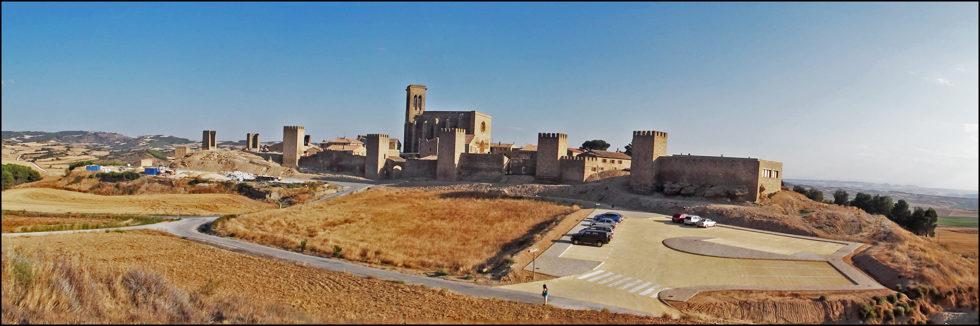 Fortified village of Artajona: fortified village of the XI century, where is settled the church of San Saturnino.